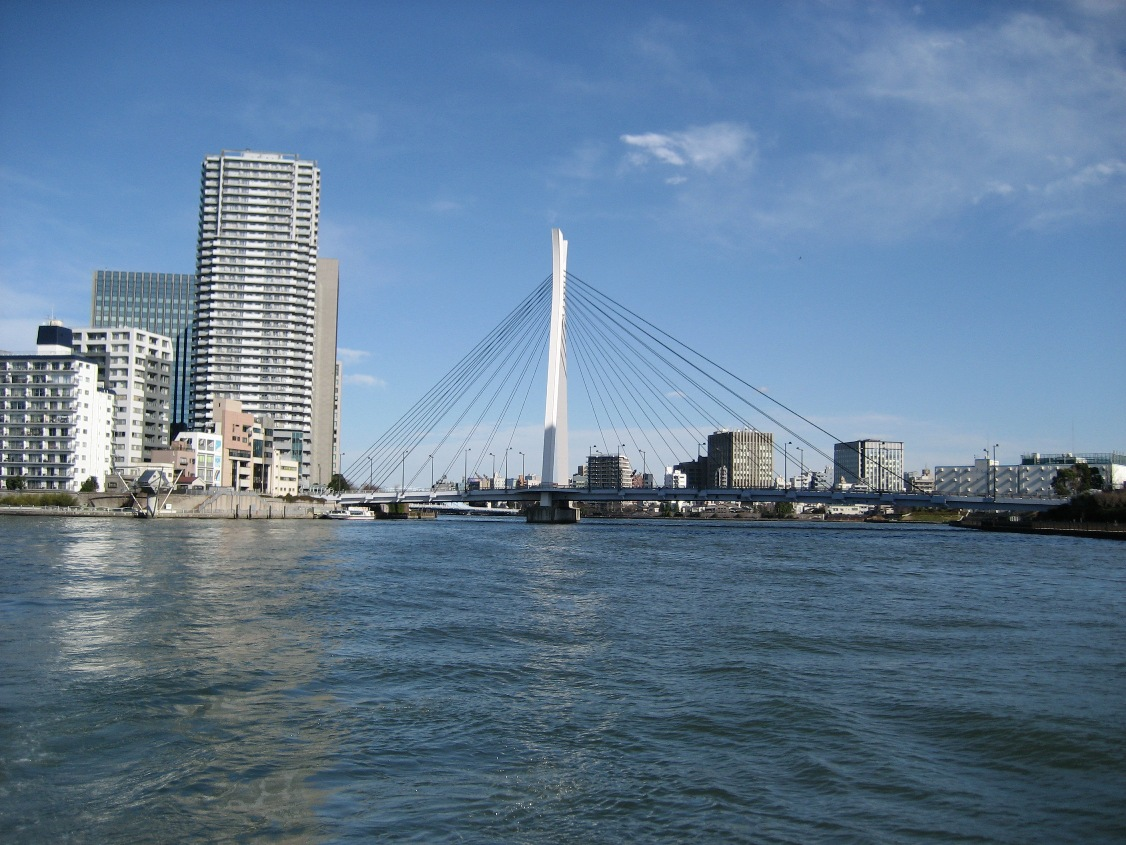 The Chuo-Ohashi (one of the many bridges) over the Sumida River